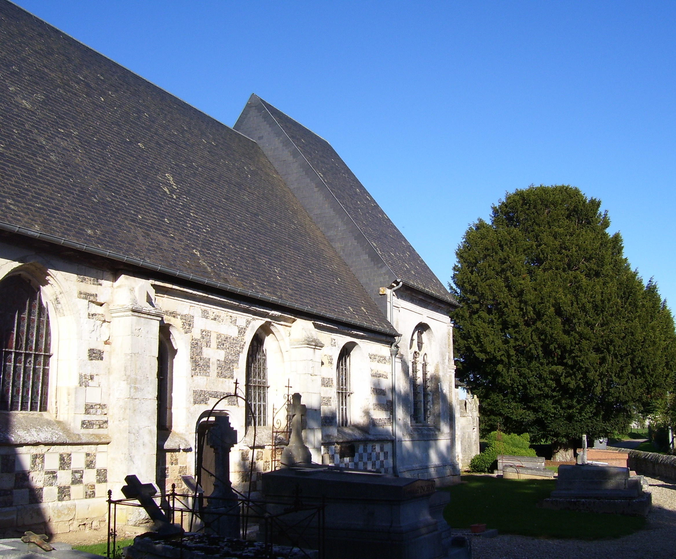 Church Notre-Dame of Boissy-Lamberville (Eure, Haute-Normandie) in France.